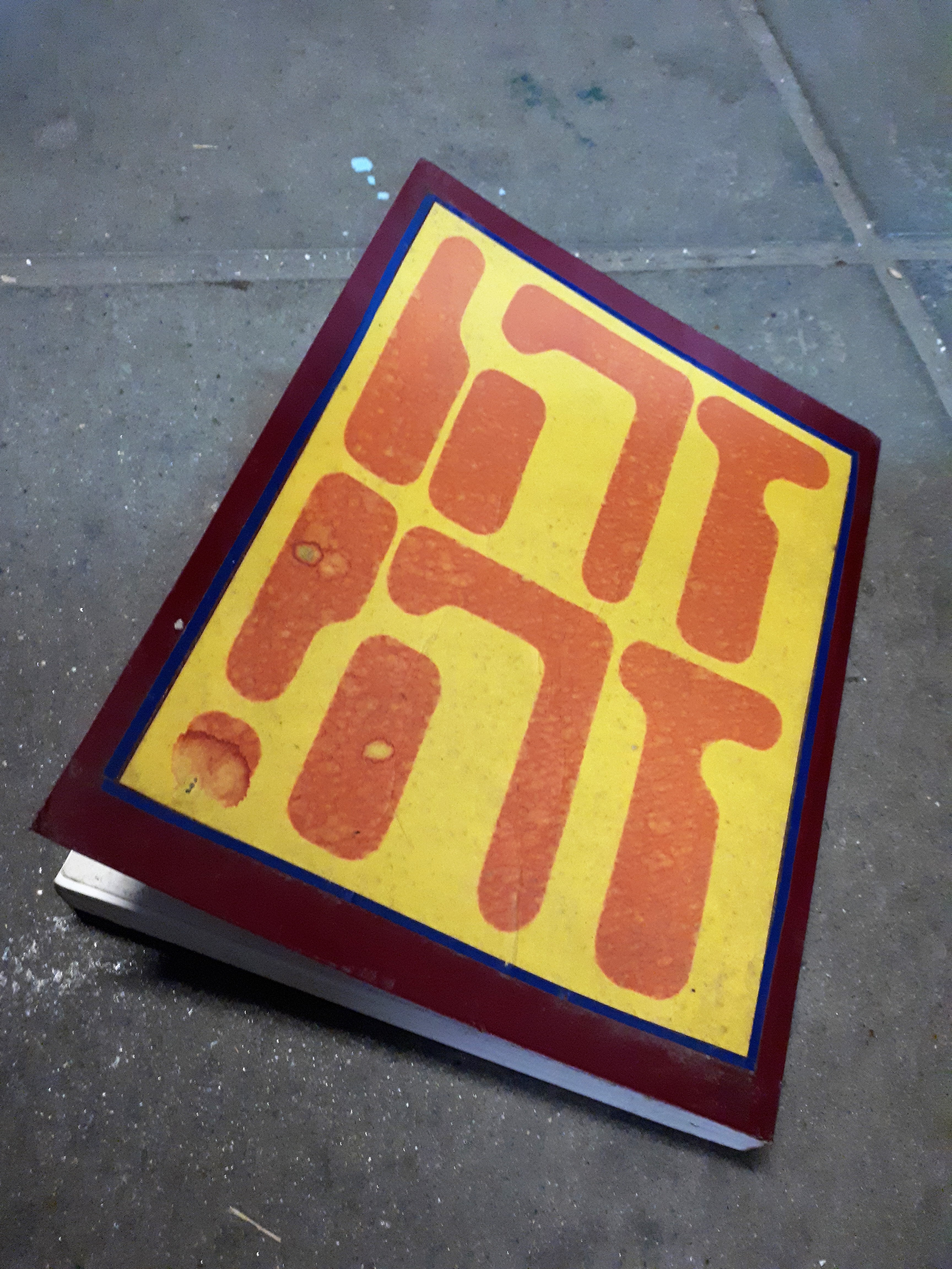 Television props at the IETV. Tel Aviv, April 2018